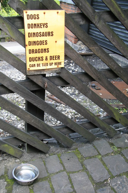 A nasty attack of alliteration! Sign by the NYMR engine sheds, Grosmont.